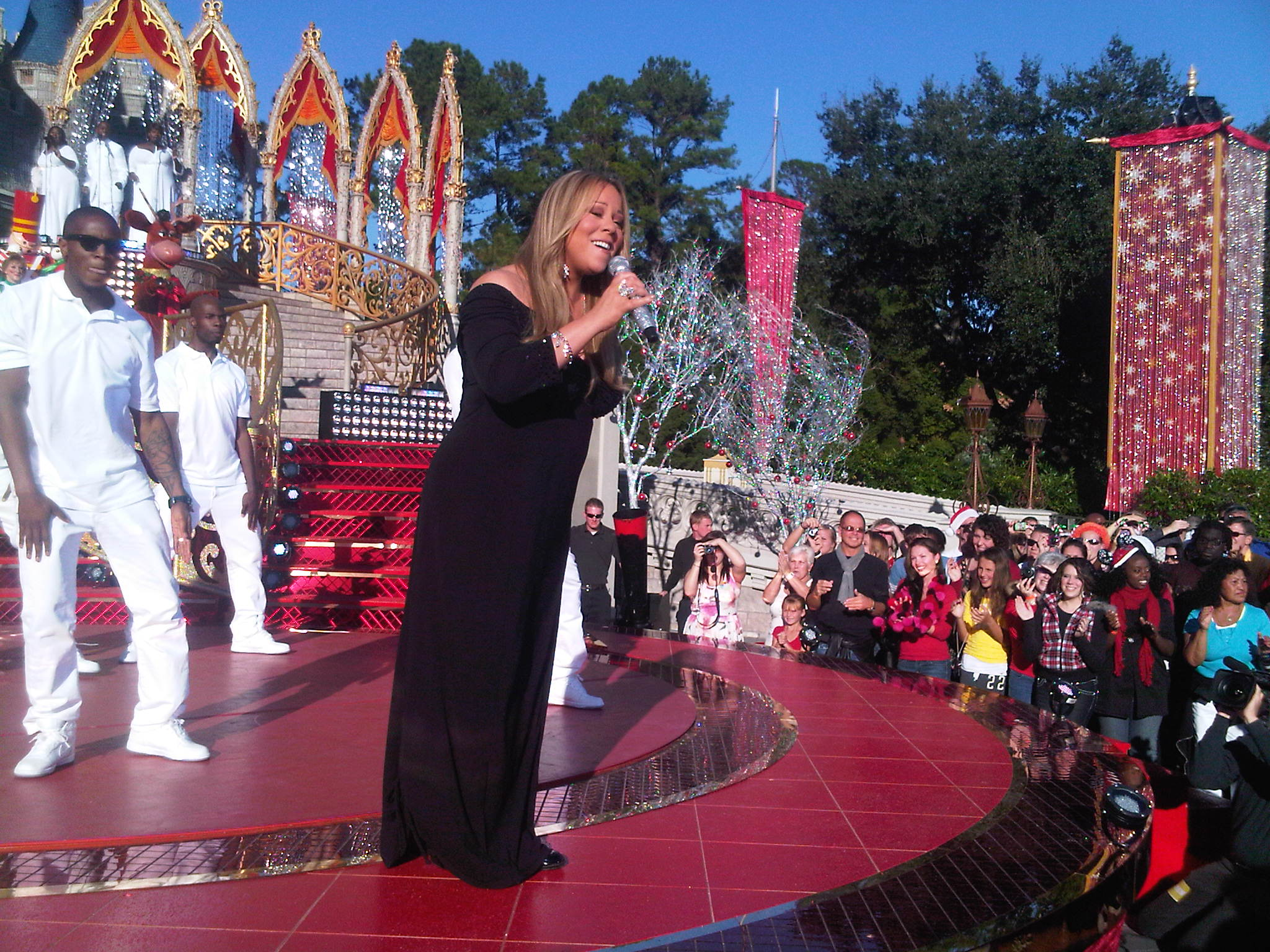 Mariah Carey performing at the Magic Kingdom at the Walt Disney World Resort